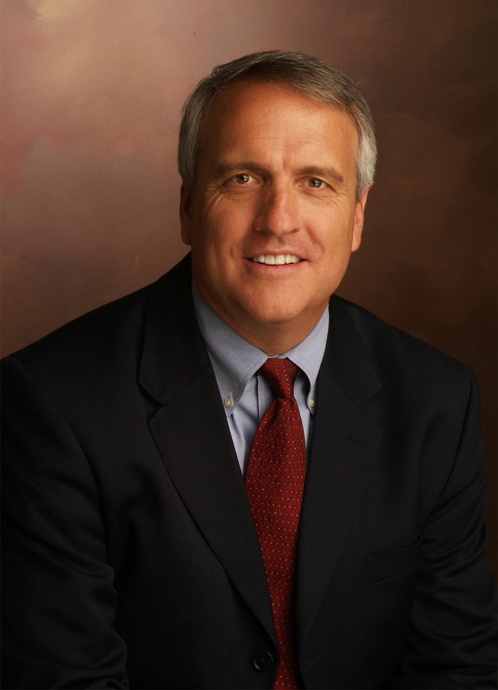 Official photo of Colorado Governor Bill Ritter (D-CO).